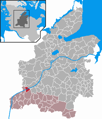 Locator maps of municipalities in Schleswig-Holstein - District Rendsburg-Eckernförde